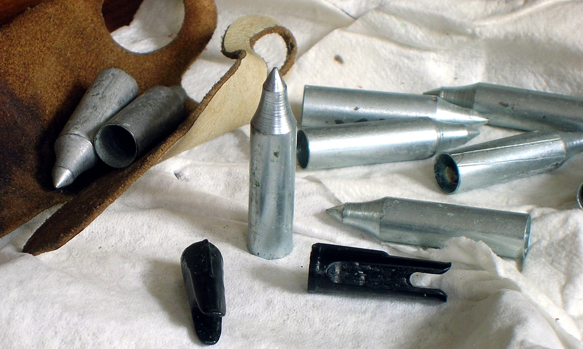 Field points (arrowheads) with an archer's tab and plastic nocks. Ridge on nocks simulates the extended shaft of the cock feather, giving tactile reference for proper orientation on string. Traces of beeswax showing on one of the nocks.